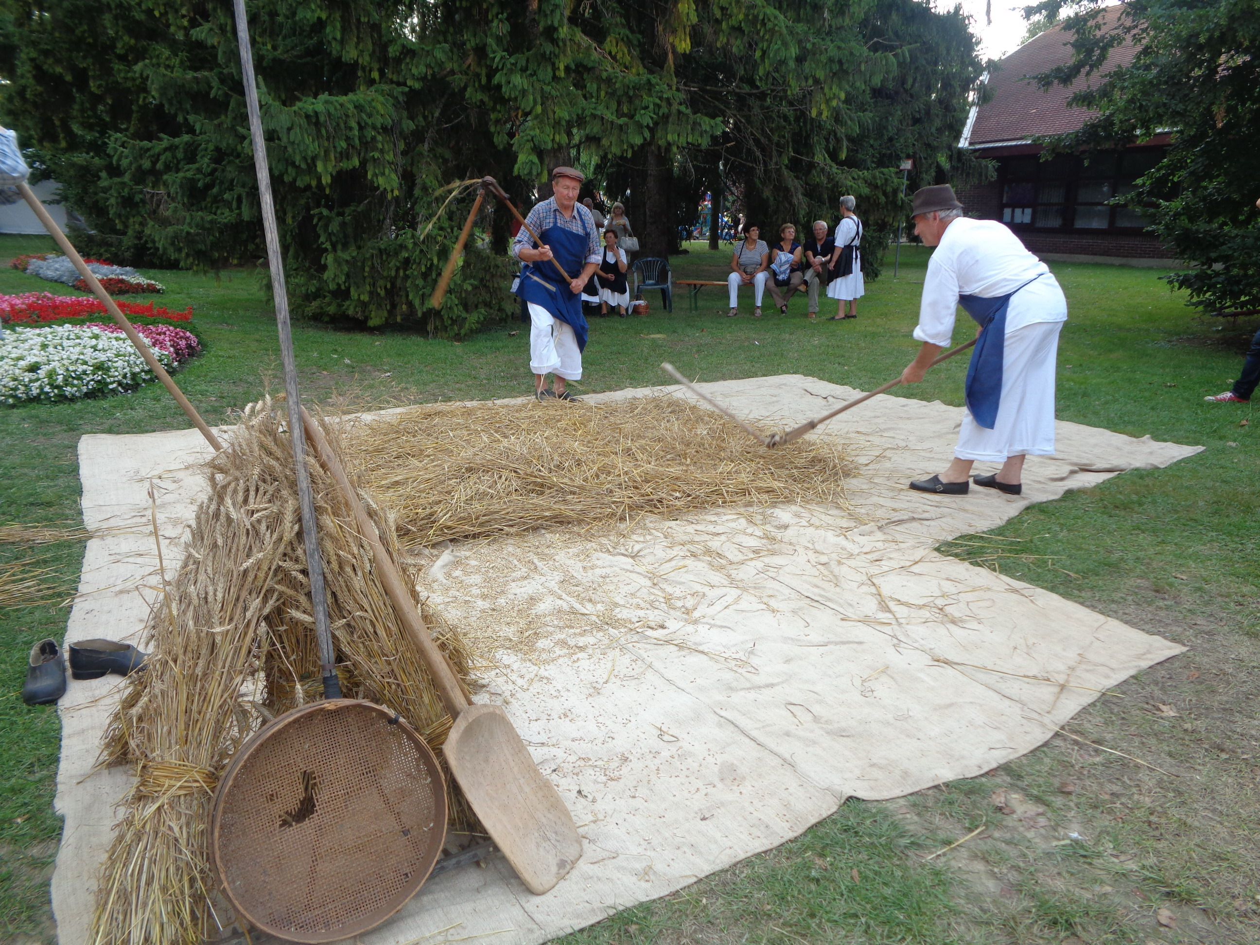 Porcijunkulovo, Catholic feast of Our Lady of the Angels and local festival in Čakovec, Croatia (2015) - farmers threshing cornHrvatski: Porcijunkulovo, katolički blagdan Gospe od Anđela i lokalno proščenje u Čakovcu, Hrvatska (2015) - poljodjelci mlate žito